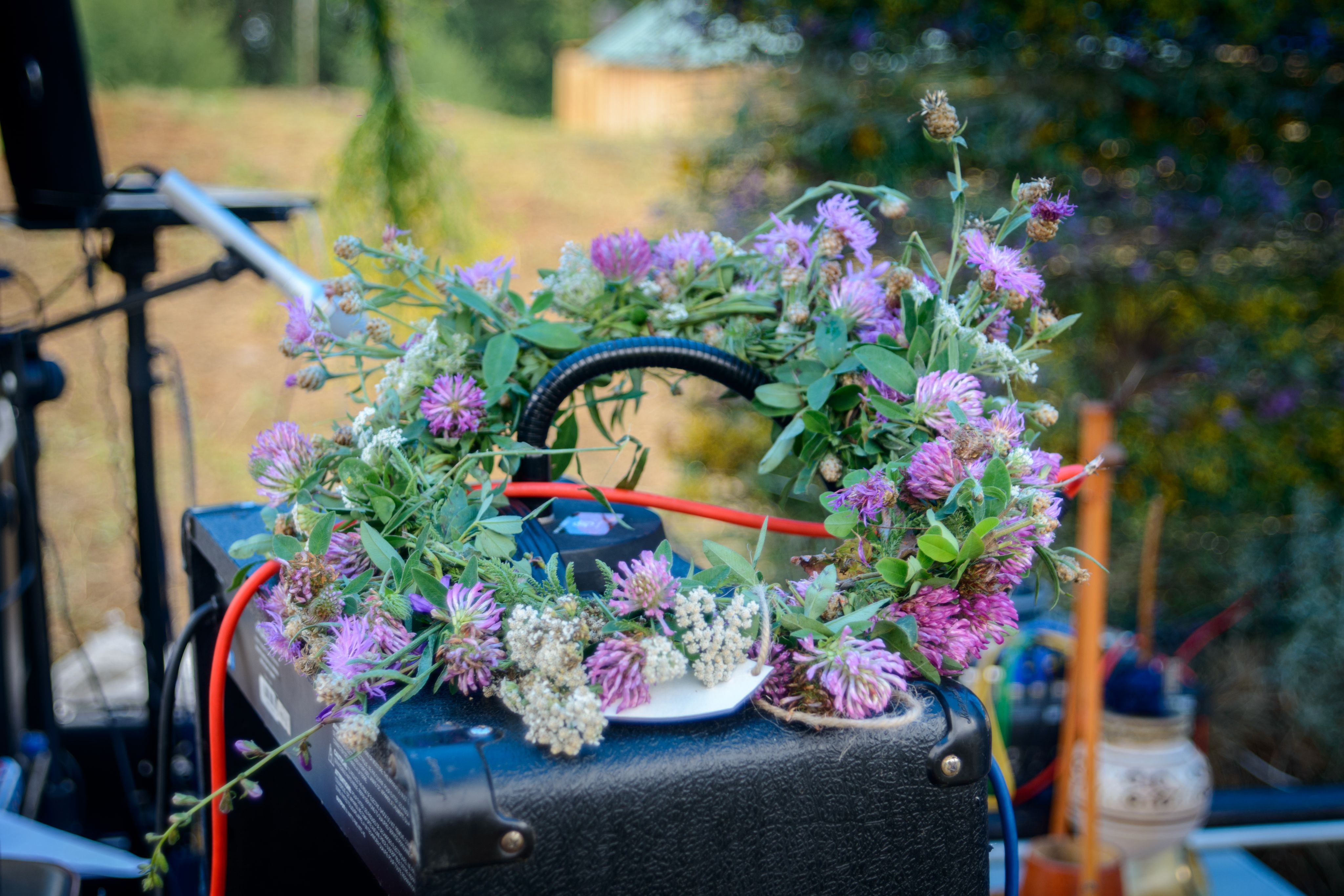 Wikiexpedition to Fest "Borschyk in clay pot". Poltava region